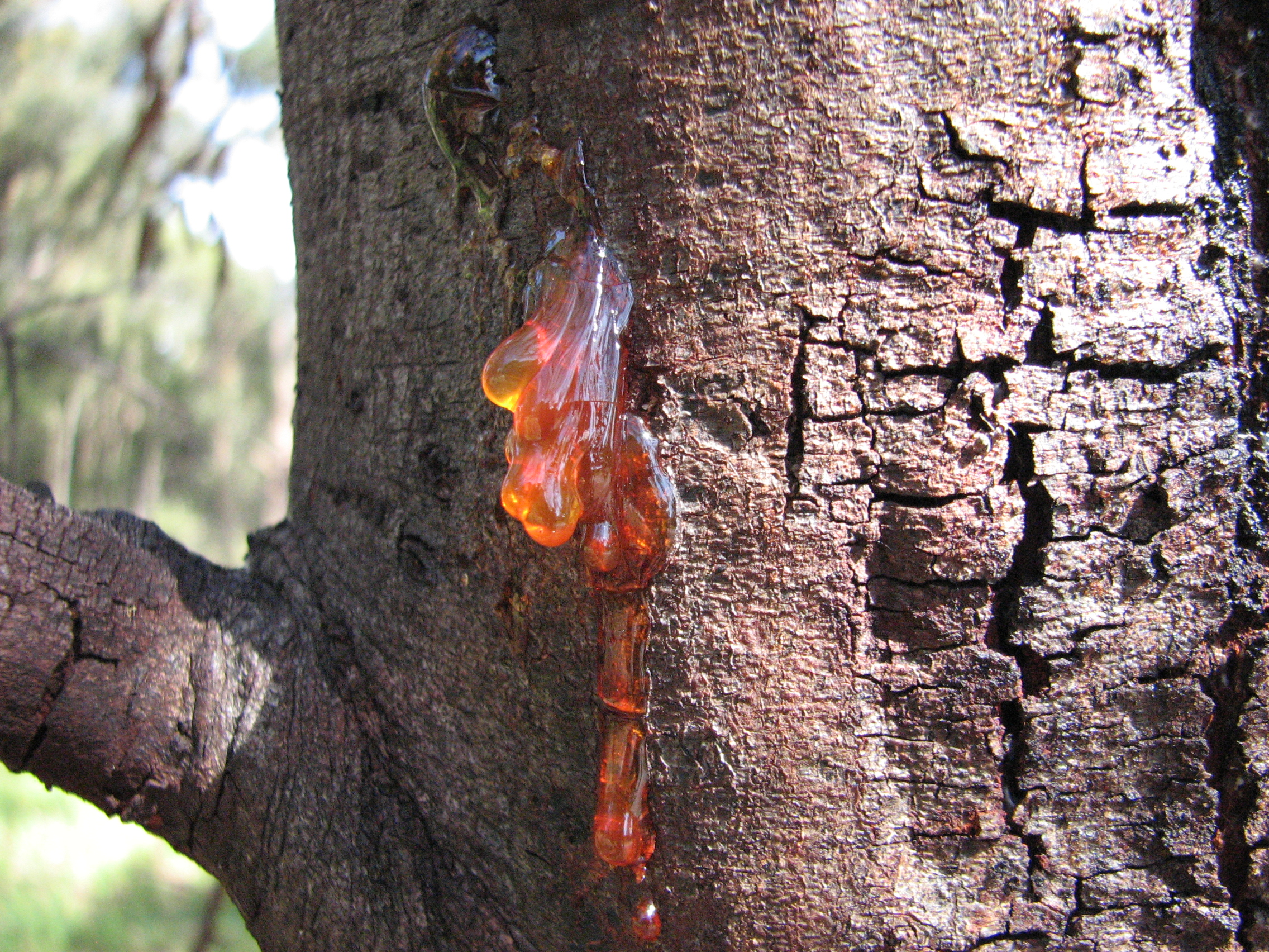 Gum exuded from trunk of Acacia pycnantha Location: Wattle Park, Burwood, Victoria, Australia